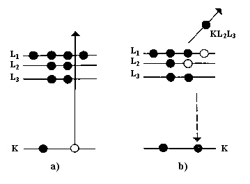 AugerTransition